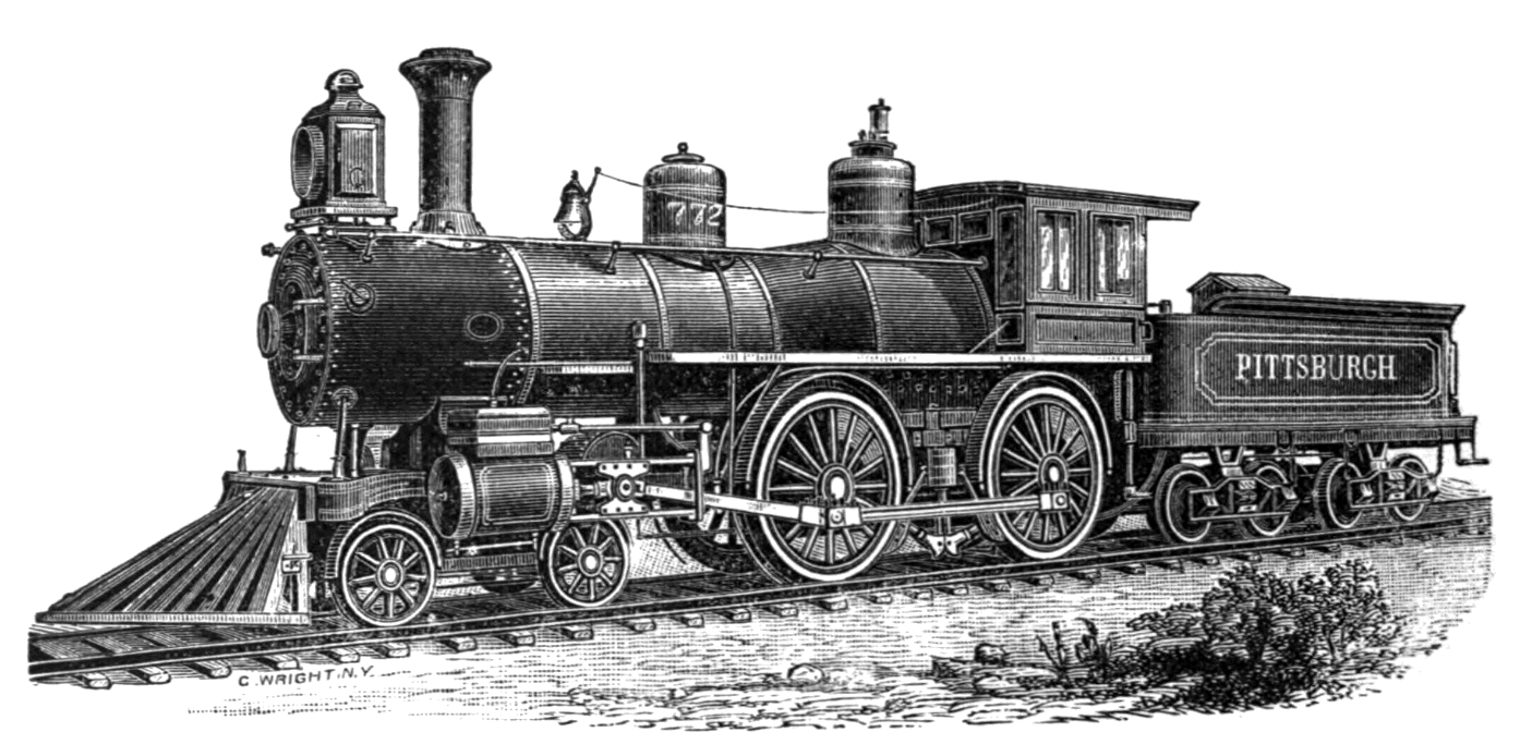 This part of an advertisement for Pittsburgh Locomotive and Car Works